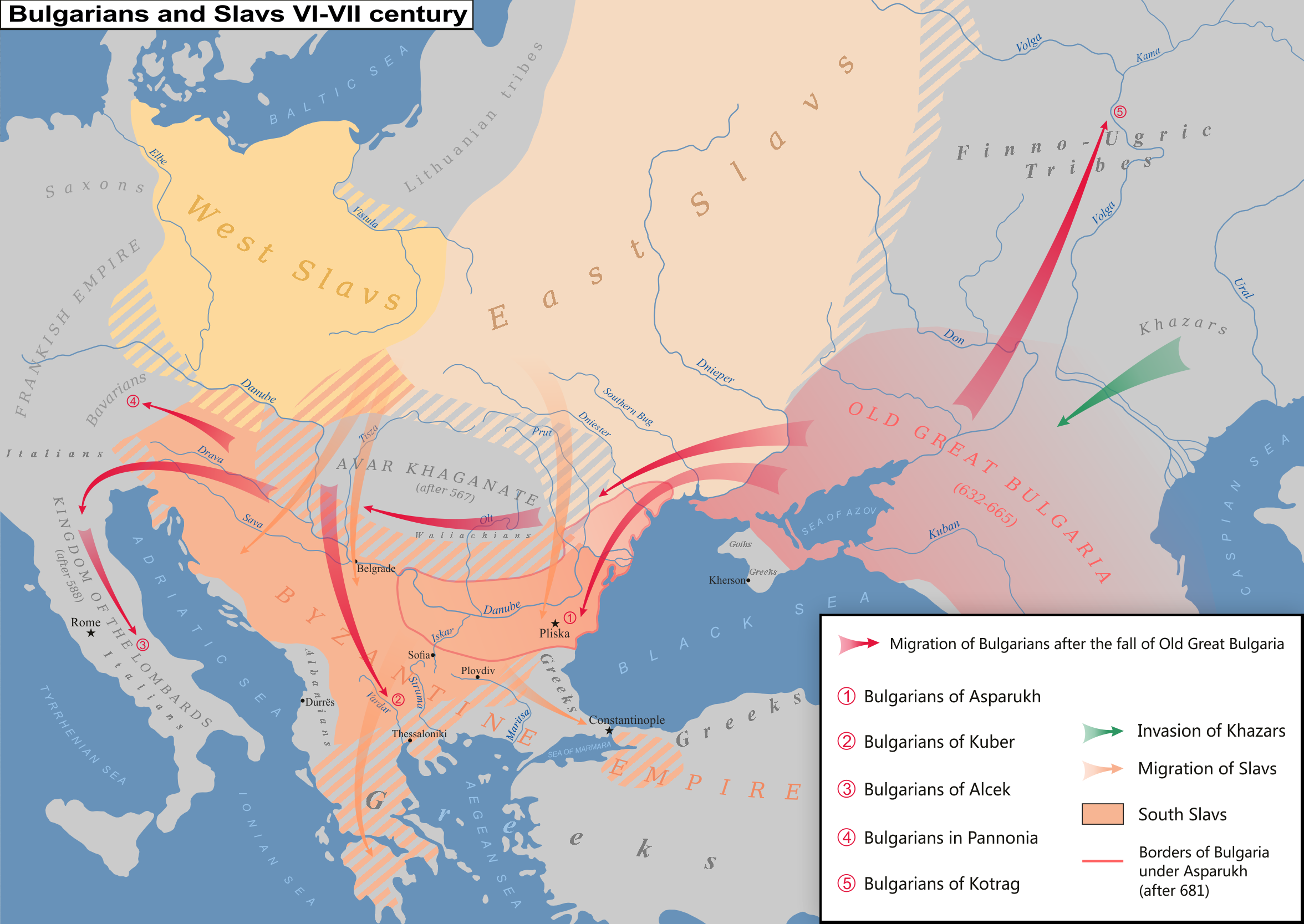 More complete map of Eastern Europe peoples VI-VII centuries